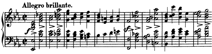 Piano Quintet Schumann: Allegro brillante (part 1) - Opening theme